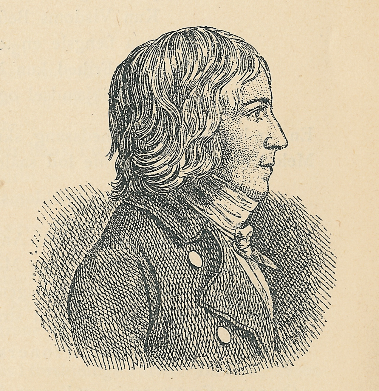 Malthe Conrad Bruun